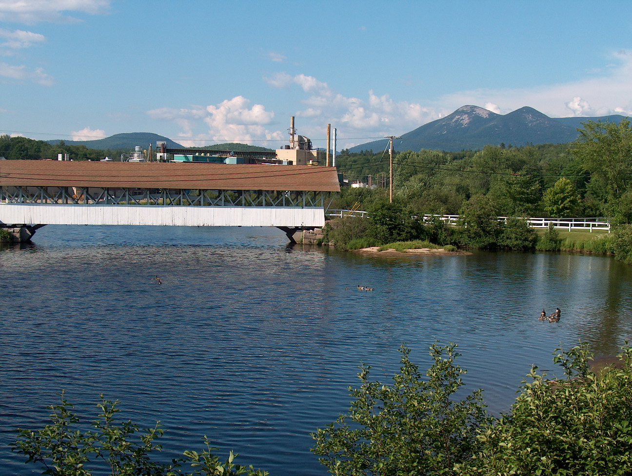 View of village of Groveton, along the Upper Ammonoosuc River. Percy Peaks in the background. Photo by Ken Gallager.